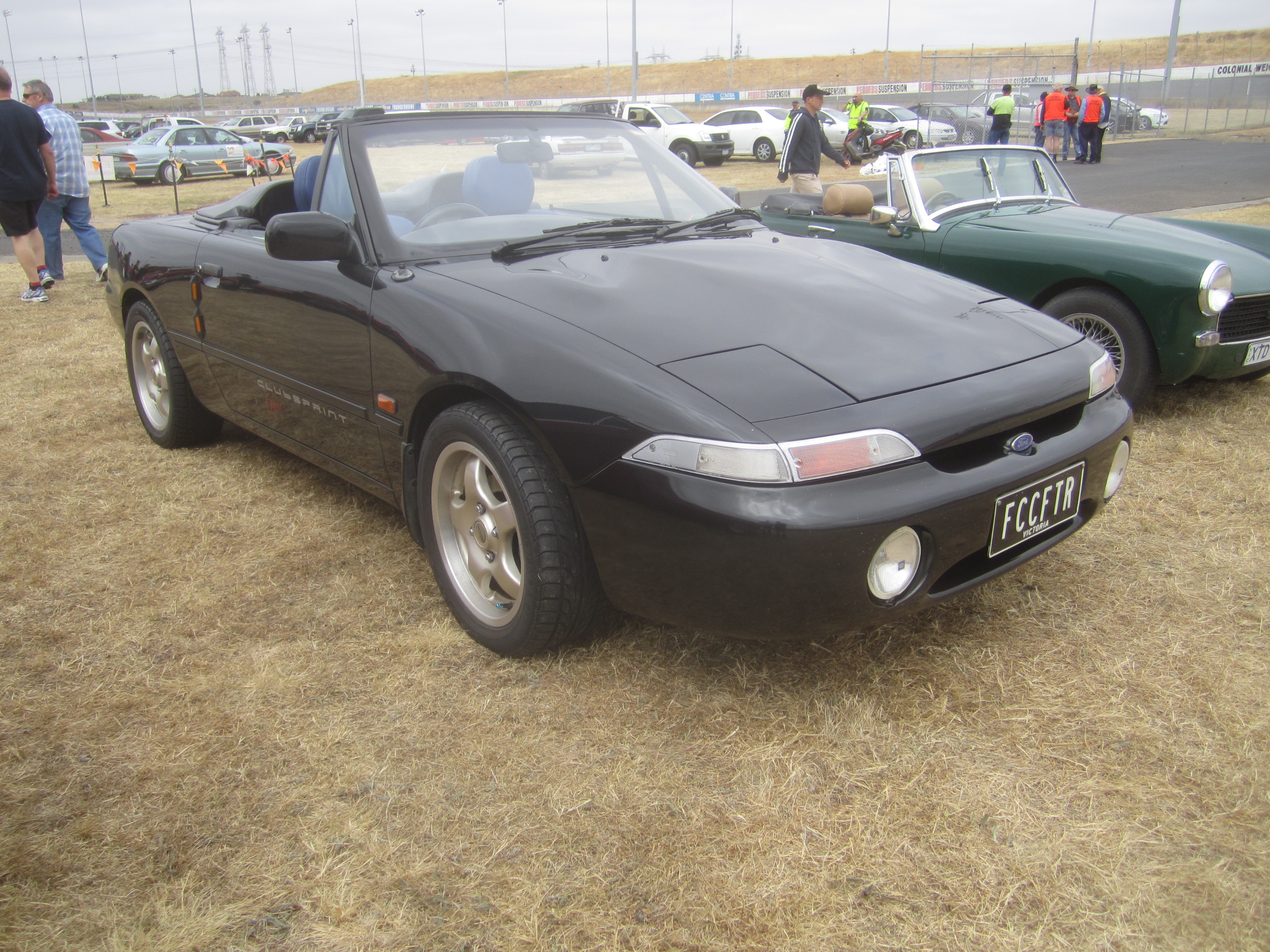 A Capri built only in Australia from 1989-94. It used Mazda 323 engines and mechanicals which Ford Australia had adopted as the basis of the Laser. Most were exported to the US as the Mercury Capri. Originally available as a standard SOHC 61 kW 1.6-litre EFI model, and also a turbocharged variant DOHC 100 kW 1.6-litre EFI. The high spec Clubsprint was introduced in 1992 Vehicle registration enquiry results Jurisdiction Victoria Registration FCCFTR Chassis code 6FPAAAULAUNS18105 Engine code B6863784 Compliance date 1992-11 Year of manufacture 1993 (not a typo)